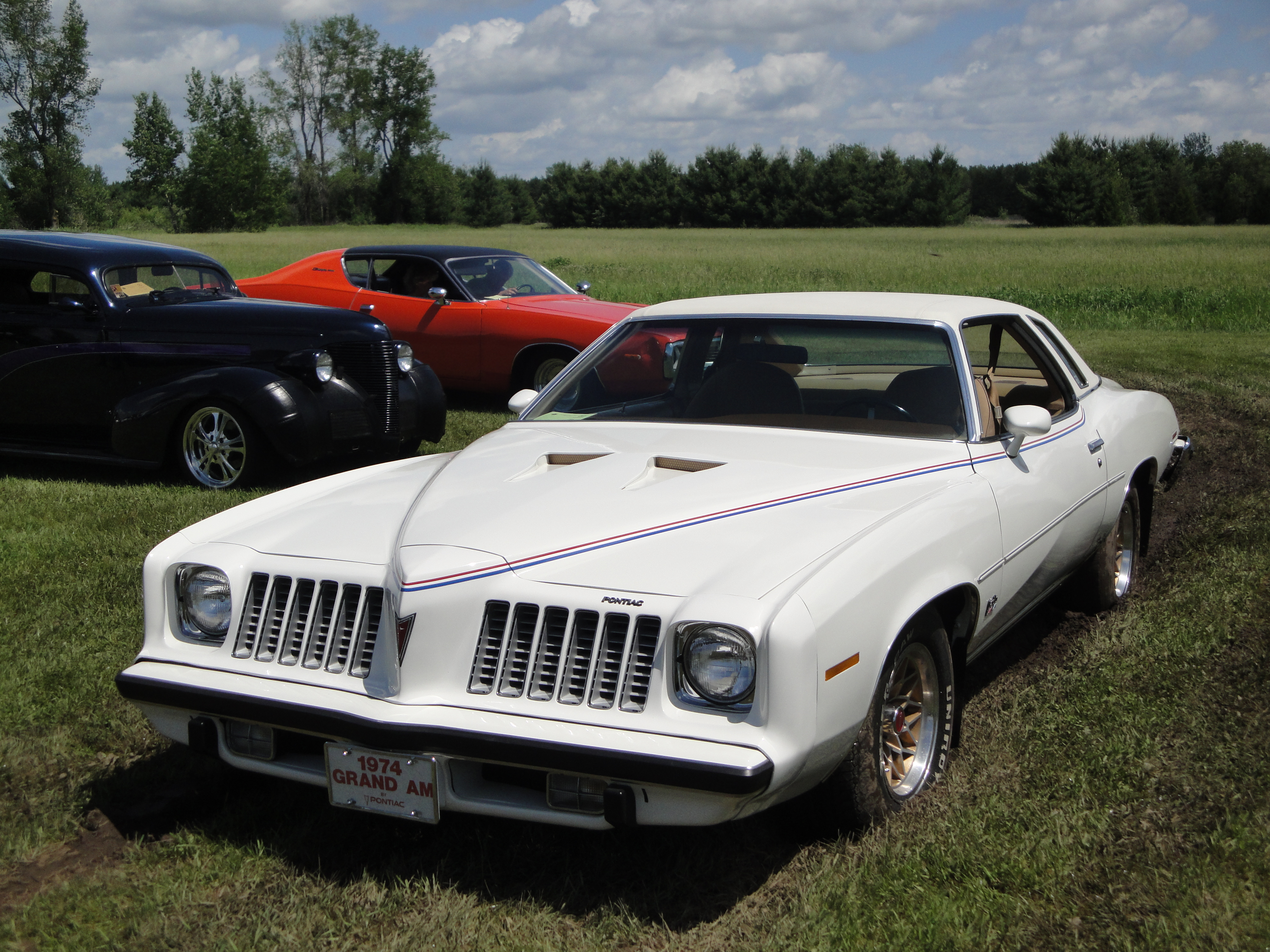 2012 Memorial Day Car Show Hosted by the North Star Chapter of the Studebaker Drivers Club